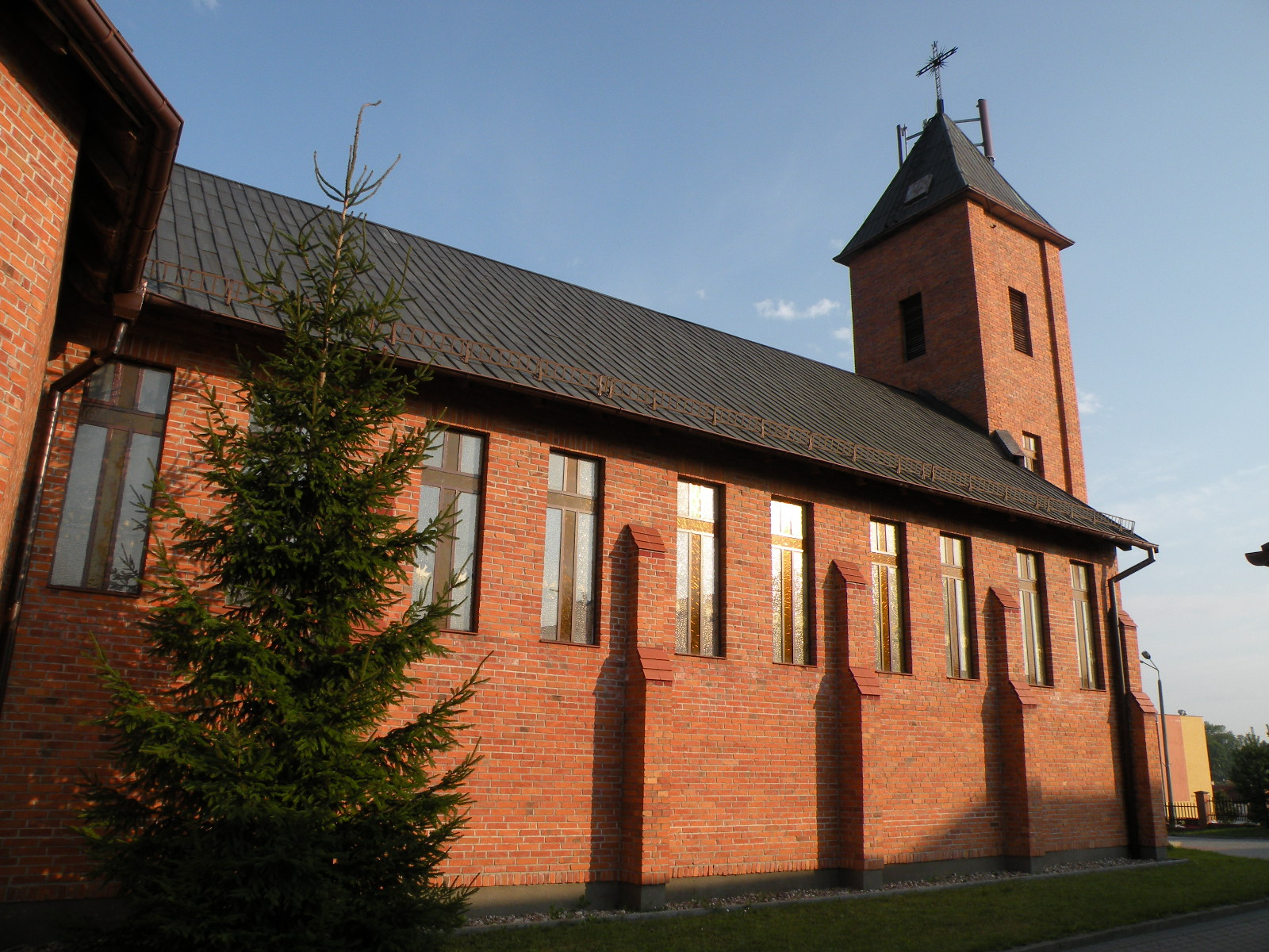 St. Hyacinth Church in Kętrzyn, Poland